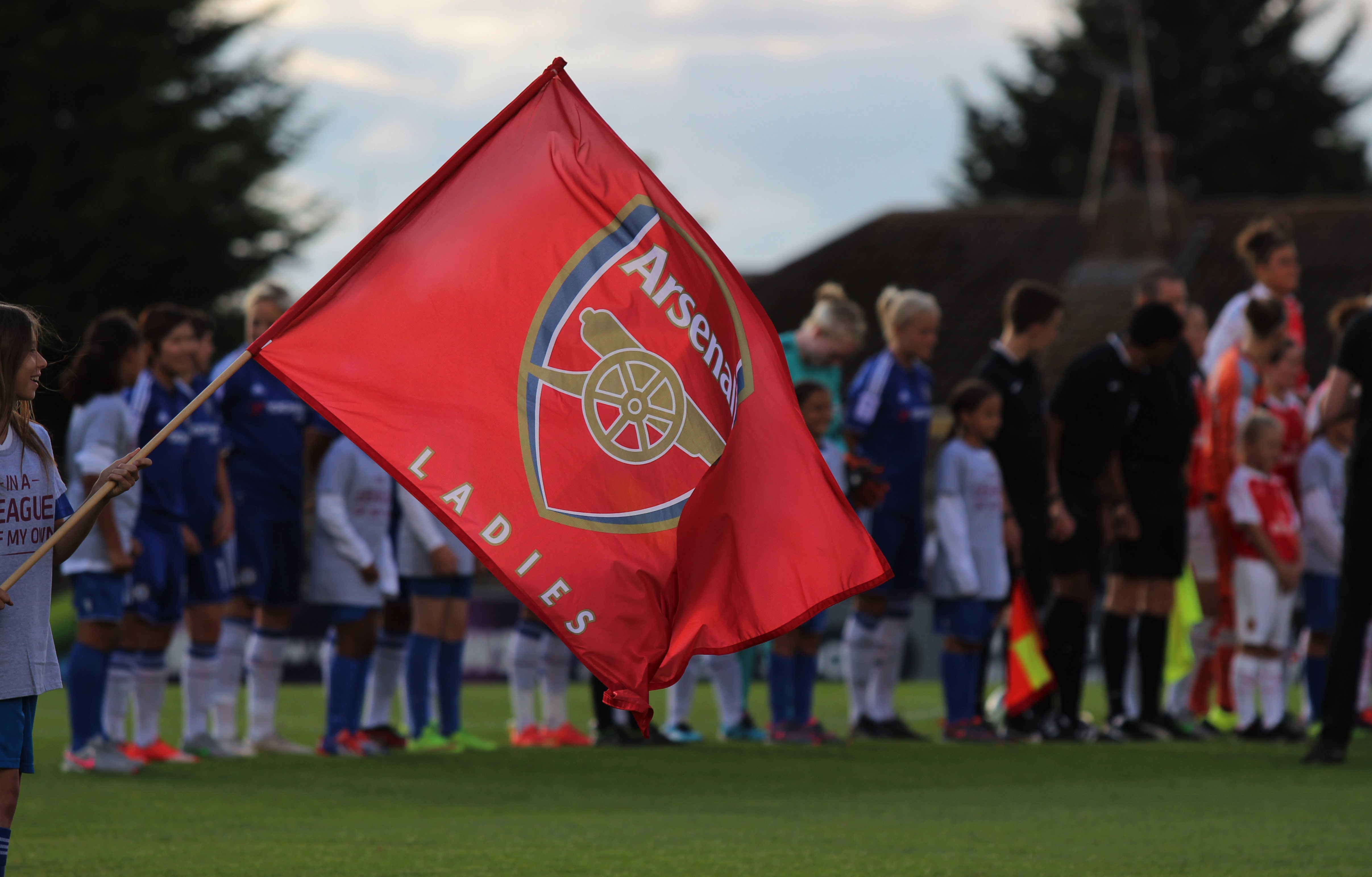 An Arsenal Ladies flag is waved as the teams shake hands before kick off.